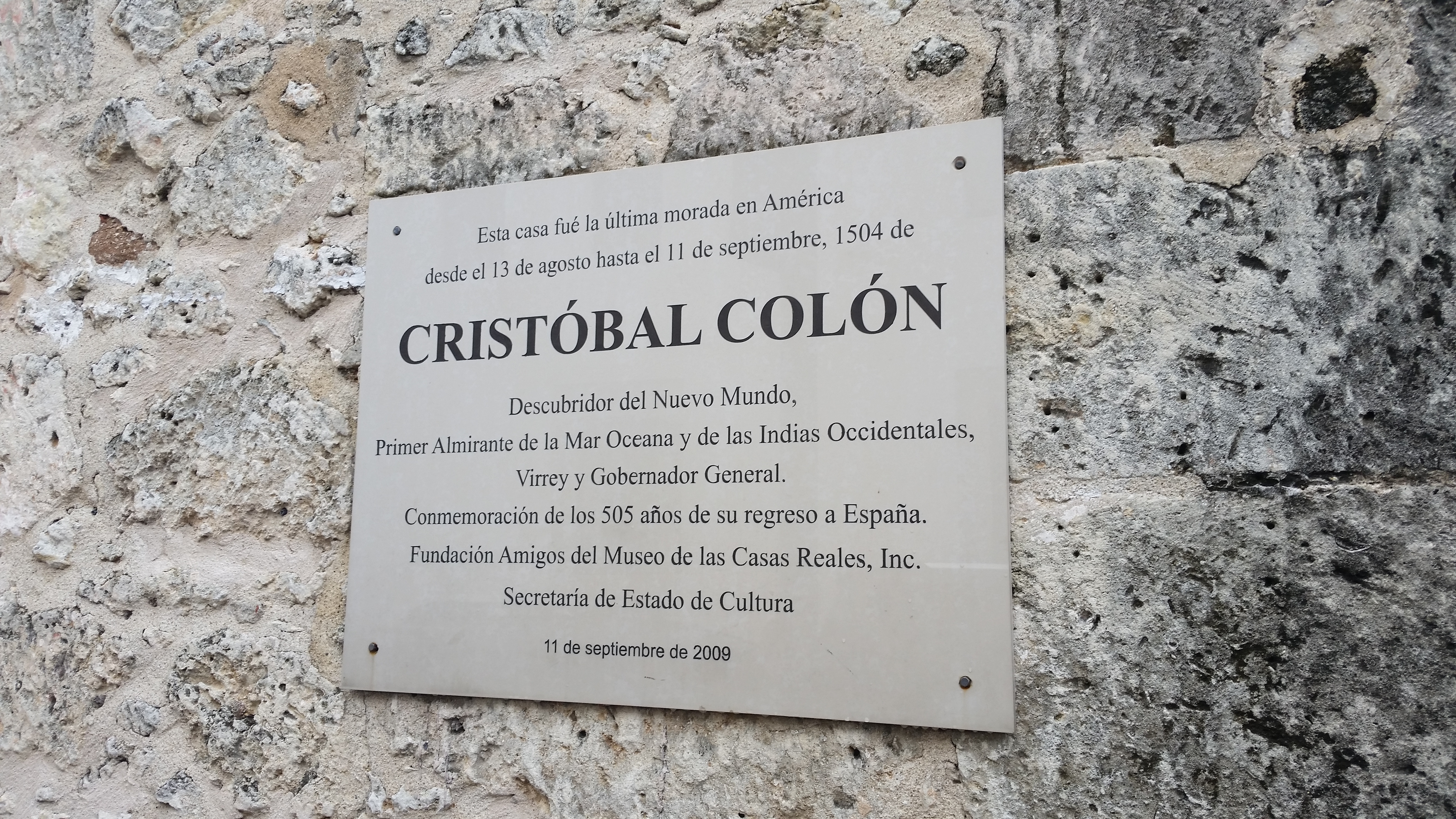 Ciudad Colonial historical marker